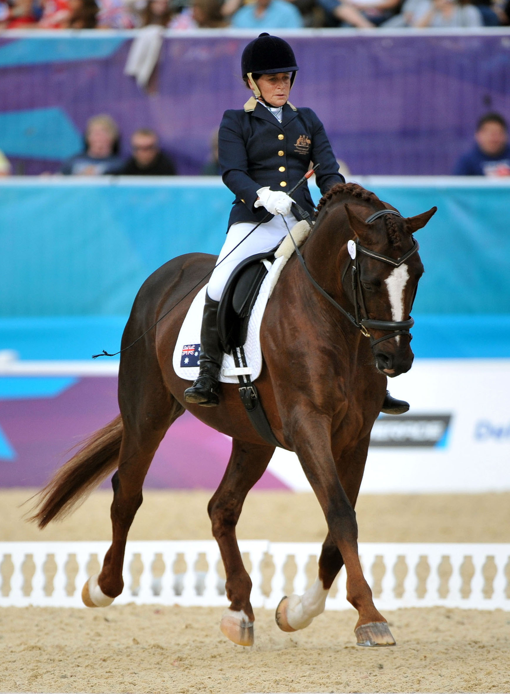 Photograph of Australian Paralympic team member Joann Formosa at the 2012 Summer Paralympic Games in London